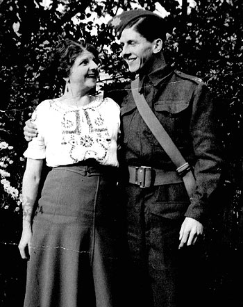 Nella Last and her youngest son, Clifford